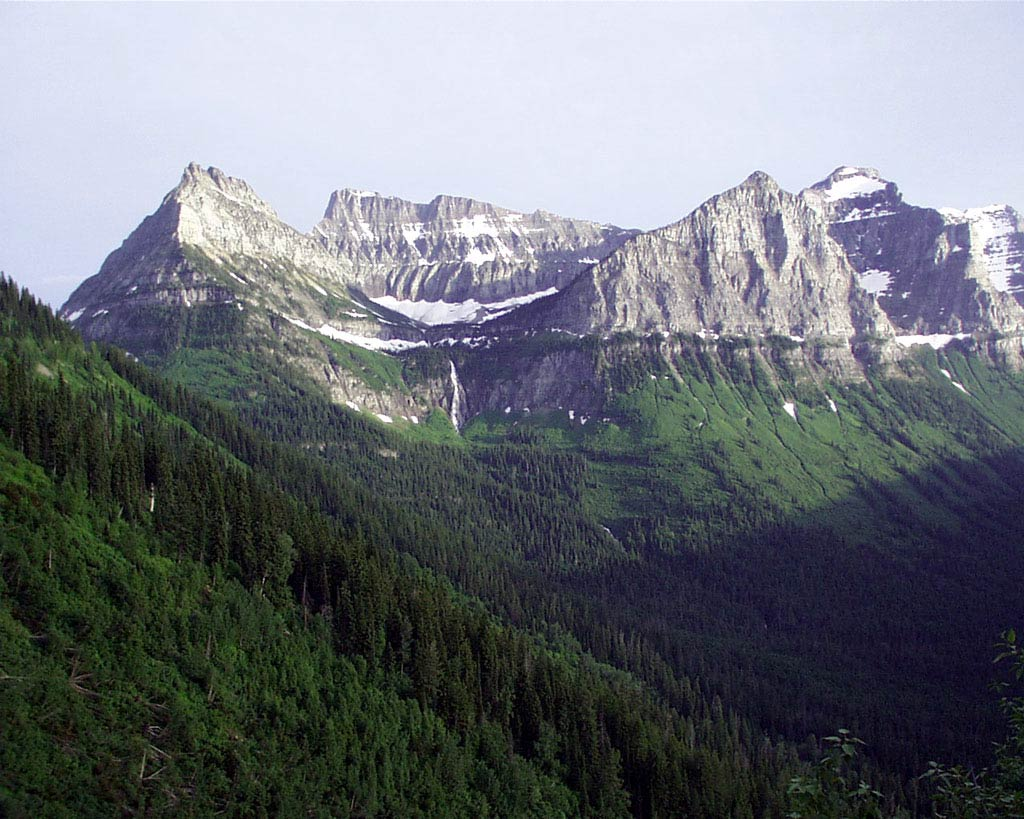 Bird Woman Falls in Glacier National Park (US)